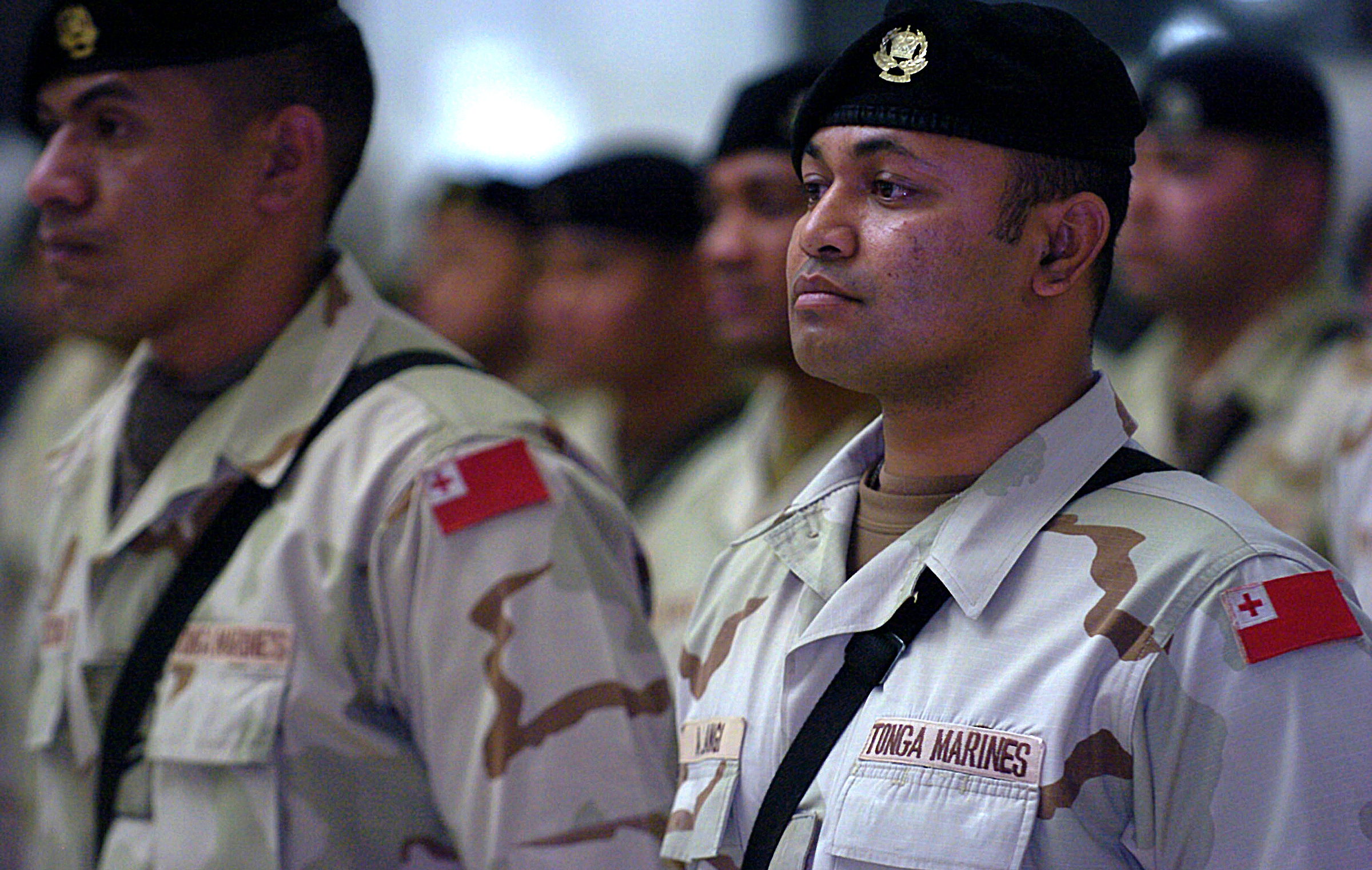 Royal Tongan Marine Cpl. Amanaki Lelei Langi stands at attention during a Feb. 5, 2008, ceremony as he and 54 of his fellow soldiers are awarded U.S. Army Commendation and Achievement Medals for their service to Multinational Corps - Iraq.